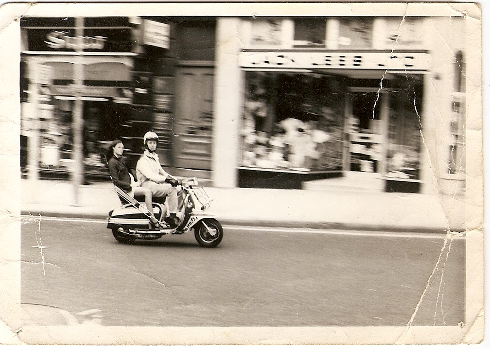 A 1971 Lambretta GP150 "Scooterboy Style" in the North of England (Halifax). Picture from 1971.